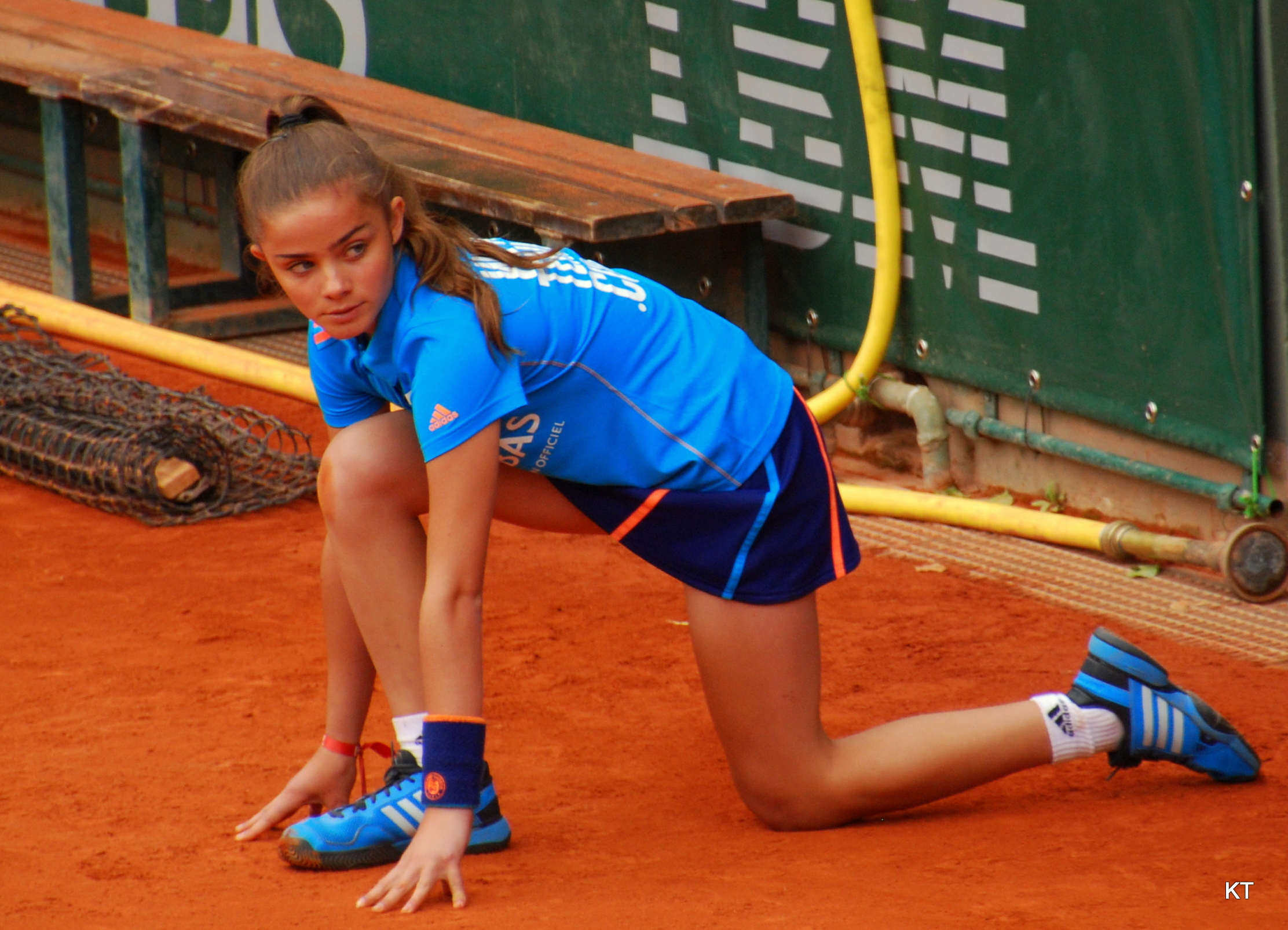 Court 2, Day 4 of Roland Garros 2014.